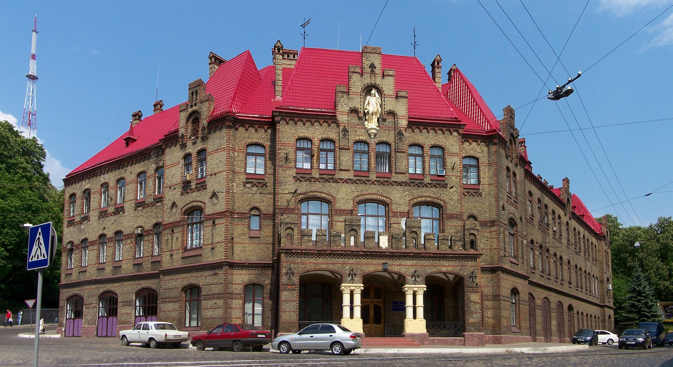 Building of fire-brigade in Lviv (Ukraine).